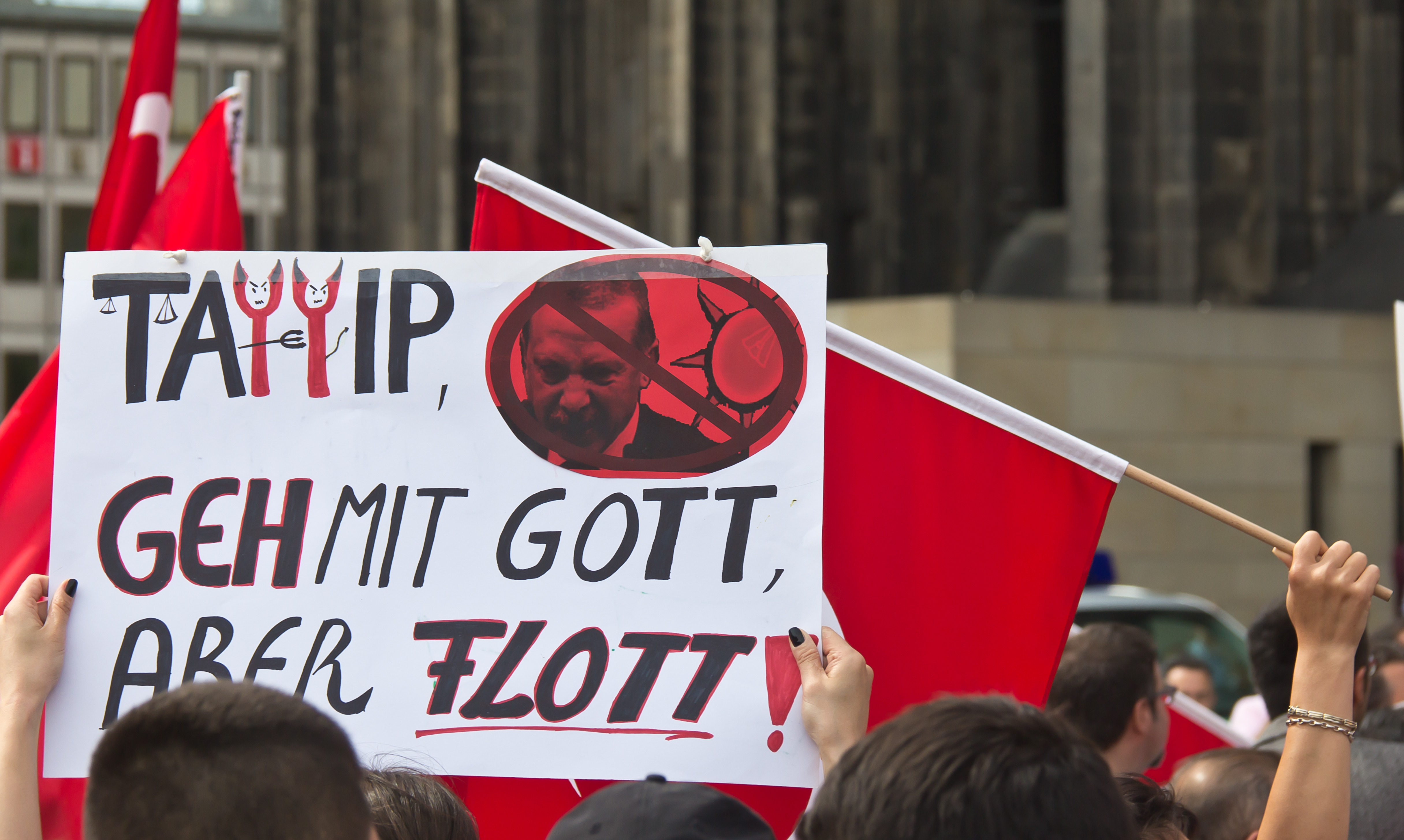 Taksim Gezi Park protests in Cologne